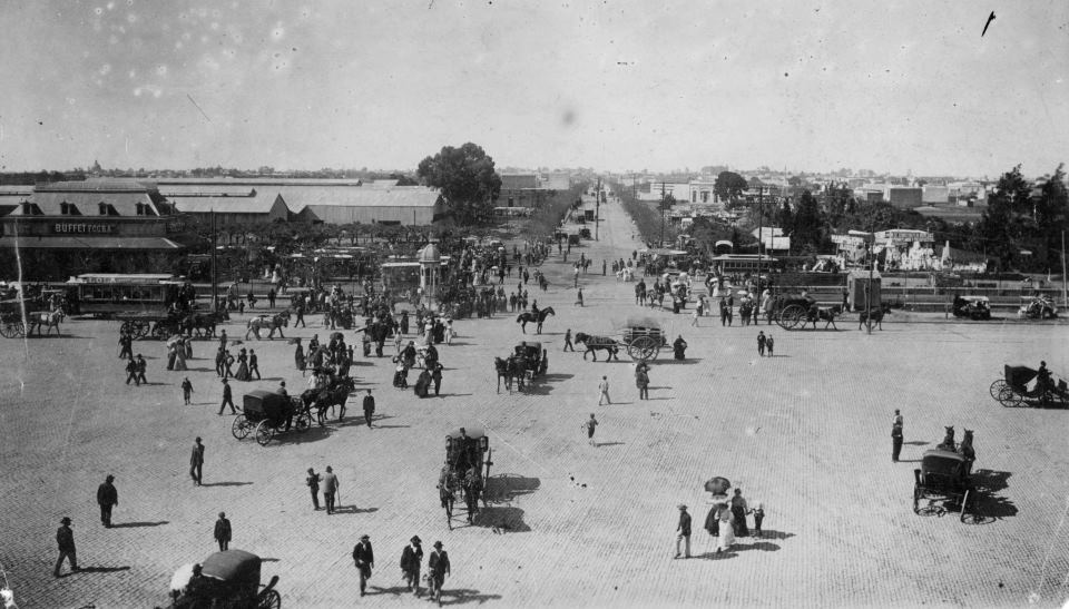 Former Chacarita railway station of Buenos Aires Central Railway (at left) on Federico Lacroze Avenue, viewed from main entrance of the Cemetery of Chacarita. At right, the Corrientes Avenue. Buenos Aires, Argentina.